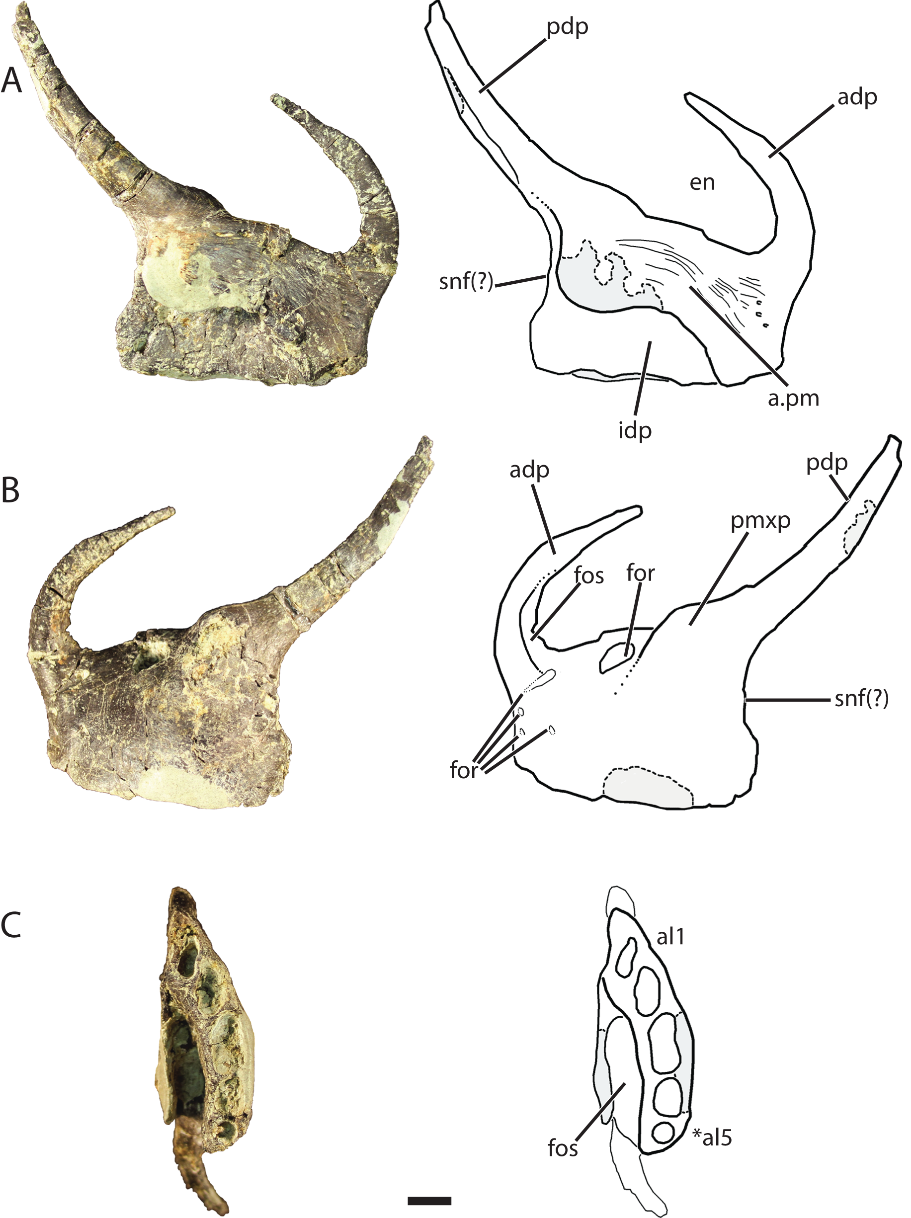 Referred left premaxilla of Vivaron haydeni gen. et. sp. nov. (GR 391) in (A) medial, (B) lateral, and (C) ventral views (with interpretive drawings). Abbreviations: a, articulation; adp, anterodorsal process; al, alveolus; en, external naris; for, foramen; fos, fossa; idp, interdental plate; pdp, posterodorsal process; pm, premaxilla; pmxp, premaxillary protuberance; snf, subnarial fenestra; *indicates potential autapomorphy. Scale bar = 1 cm.